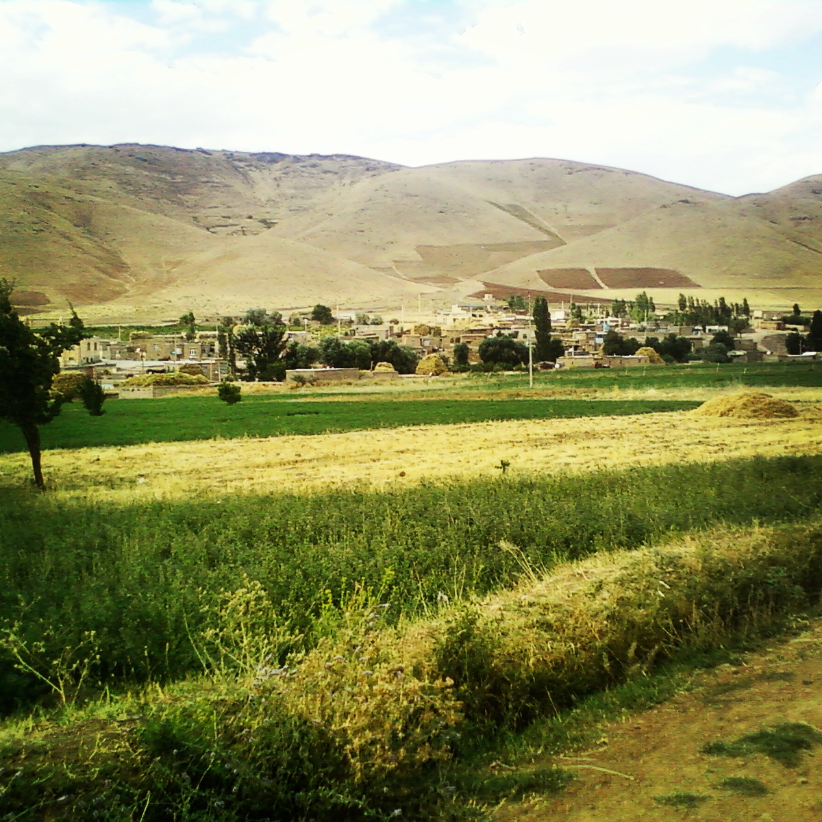 نمای بیرون روستا